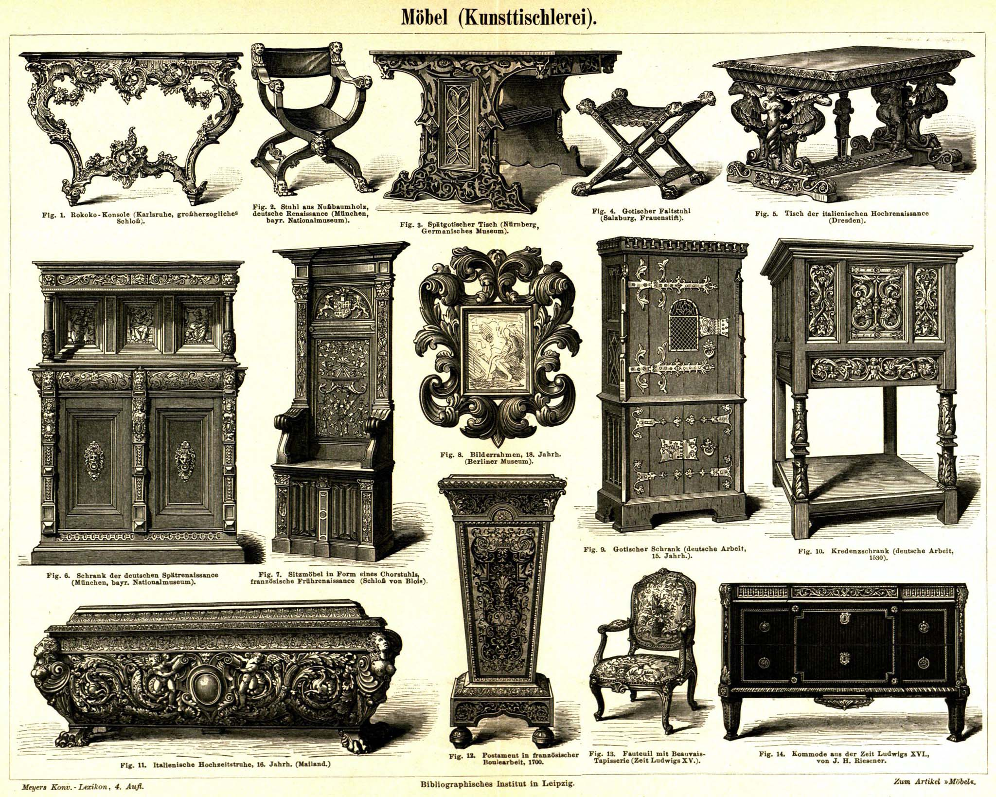 cabinetmaking